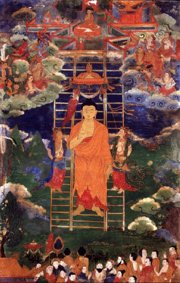 Mongolian Tanghka depicting Buddha's descent from Trāyastriṃśa, Ground Mineral Pigment on Cotton